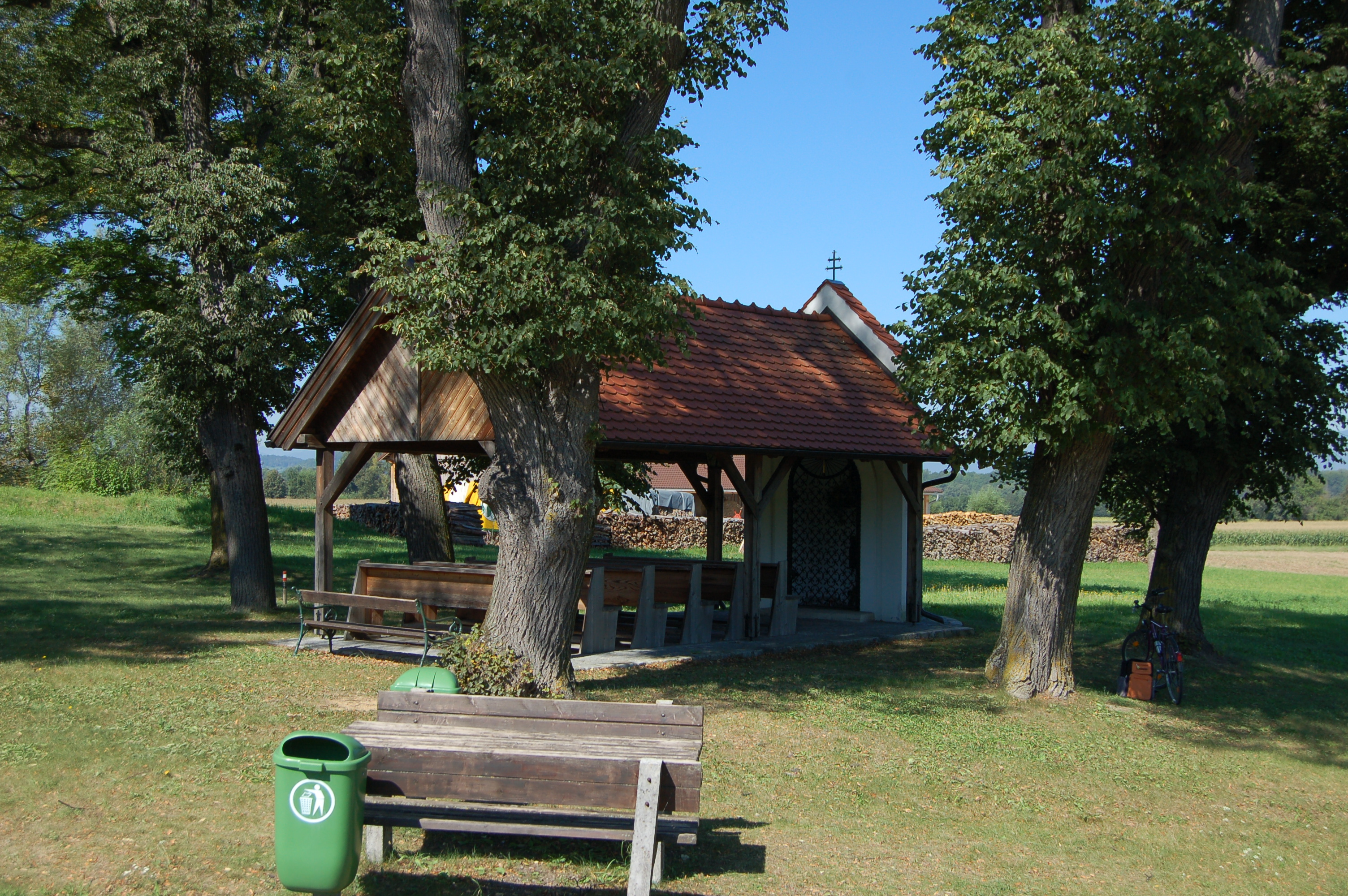 Schleinzerkreuz wayside chapel near Schleinz, municipality Walpersbach, Lower Austria